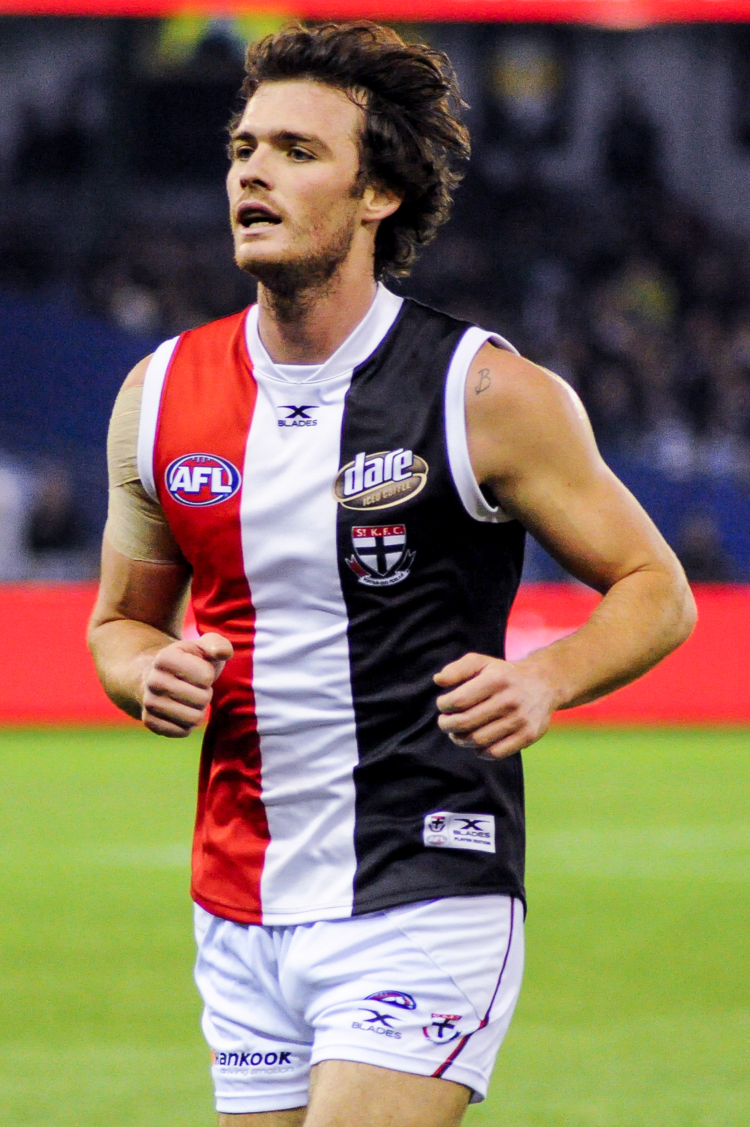 Dylan Roberton during the AFL round thirteen match between North Melbourne and St Kilda on 16 June 2017 at Etihad Stadium in Melbourne, Victoria.